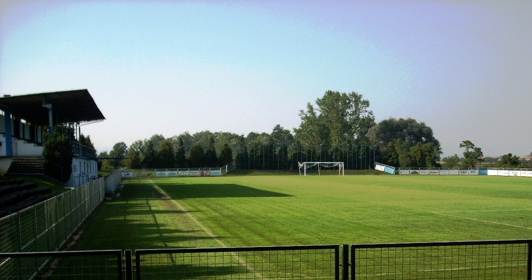 Stjepan Zdenko-Šivo, Slavija's stadium